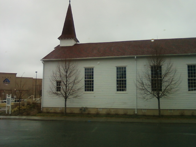 Chapel No. 1 at the former Lowry Air Force Base in Denver, Colorado.